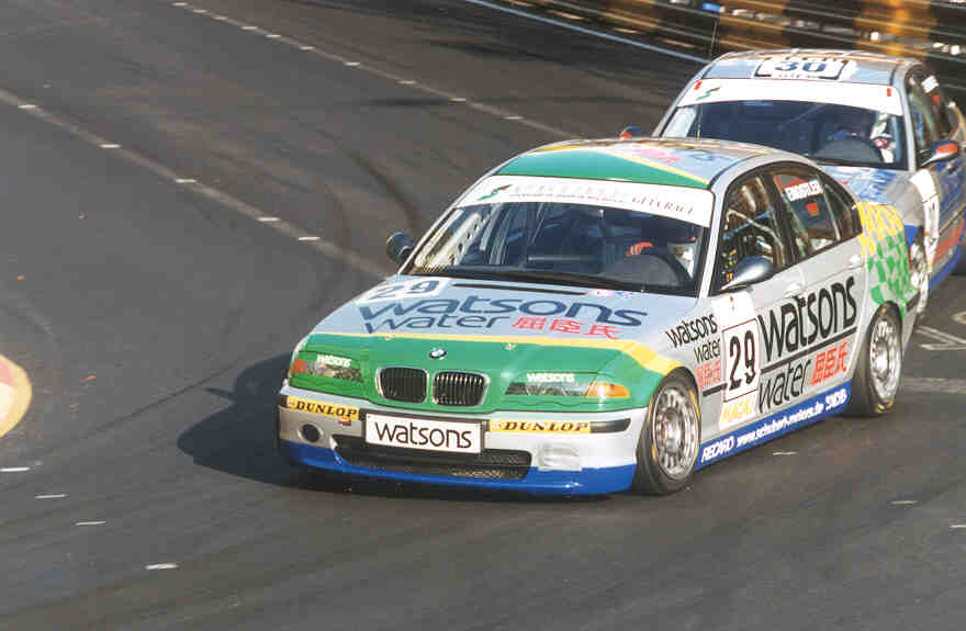 2002 Guia Race. Franz Engstler's no. 29 BMW taking the Lisboa corner.